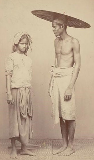 Portrait of Mappila man and woman from South India